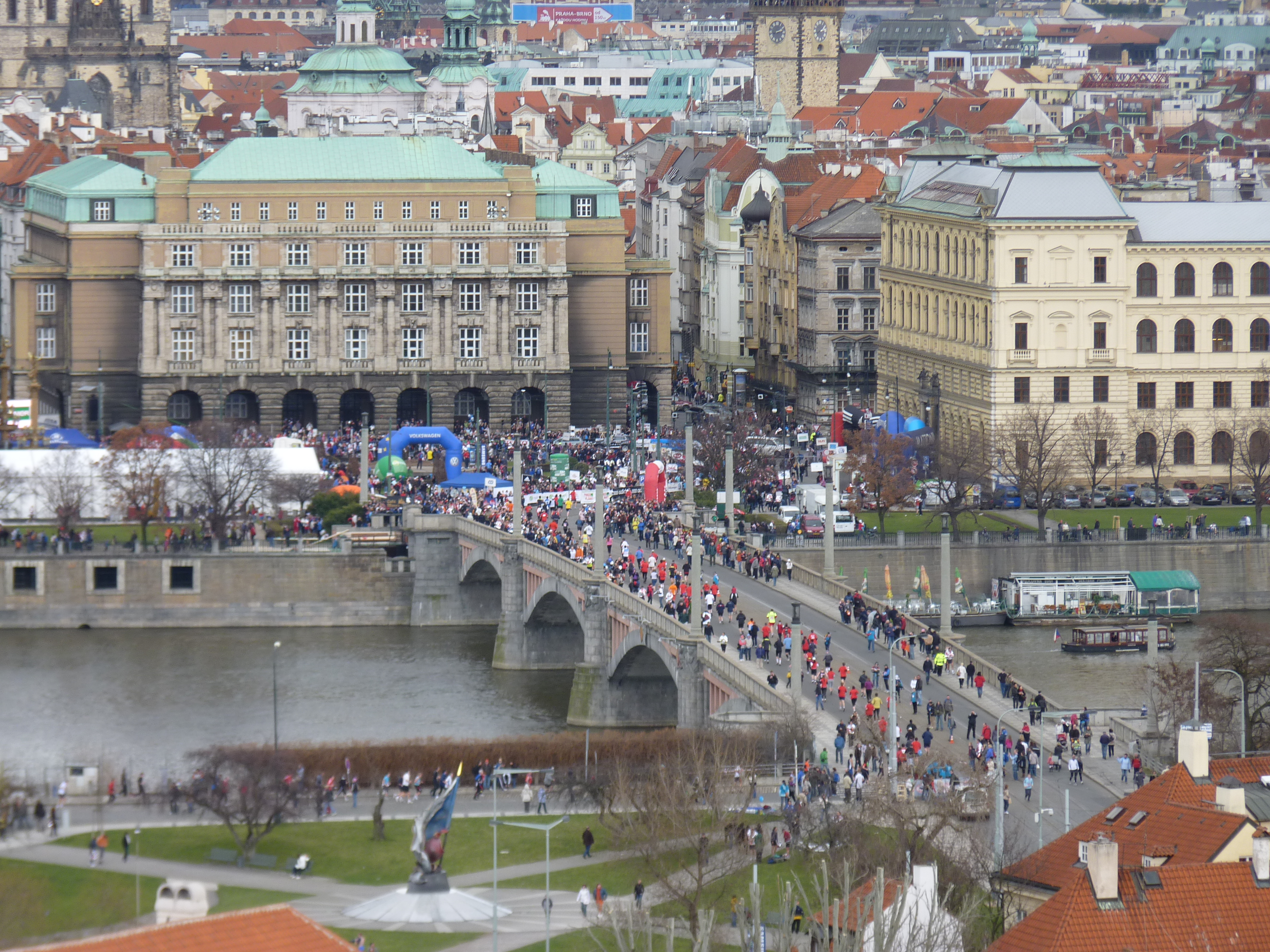 Jan Palach Square and Mánes Bridge during the 2010 Prague Half Marathon